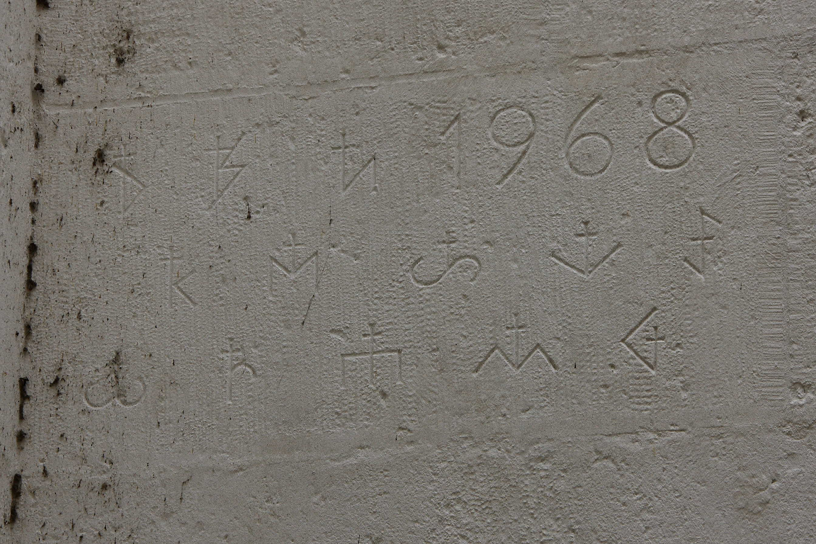 Stonecutter marks from 1968 at St. Stephen´s Cathedral in Passau.